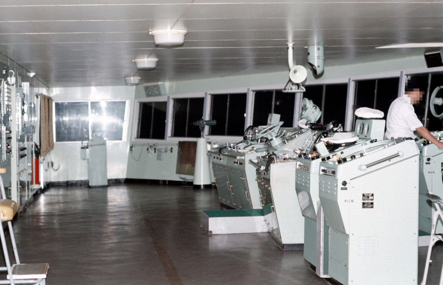 MS TSUGARU MARU2 wheel house CPP levers on an auxiliary propeller control stand on the port end were already uncoupled from main CPP levers on a propeller control console.